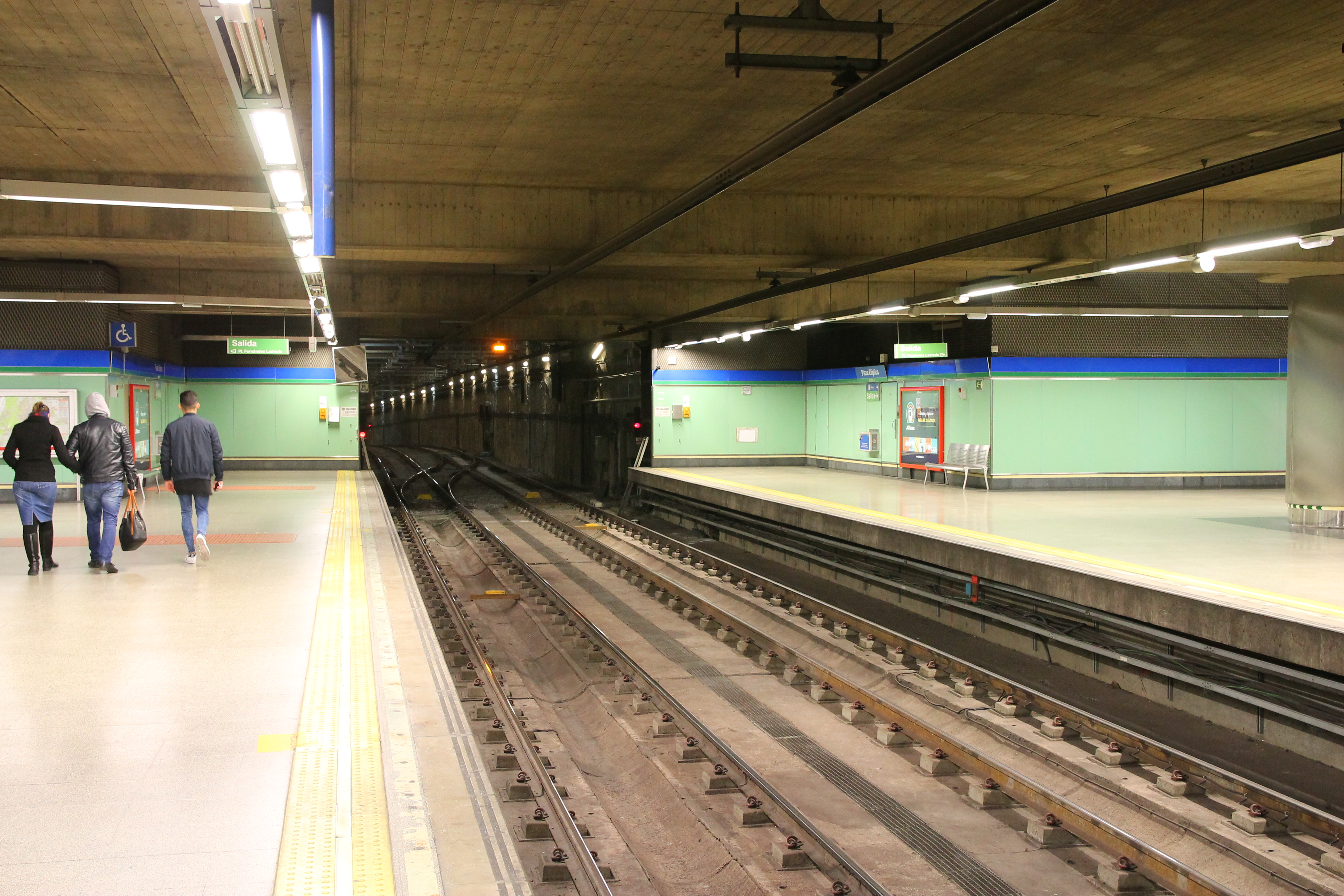 Plaza Elíptica station, Madrid Metro